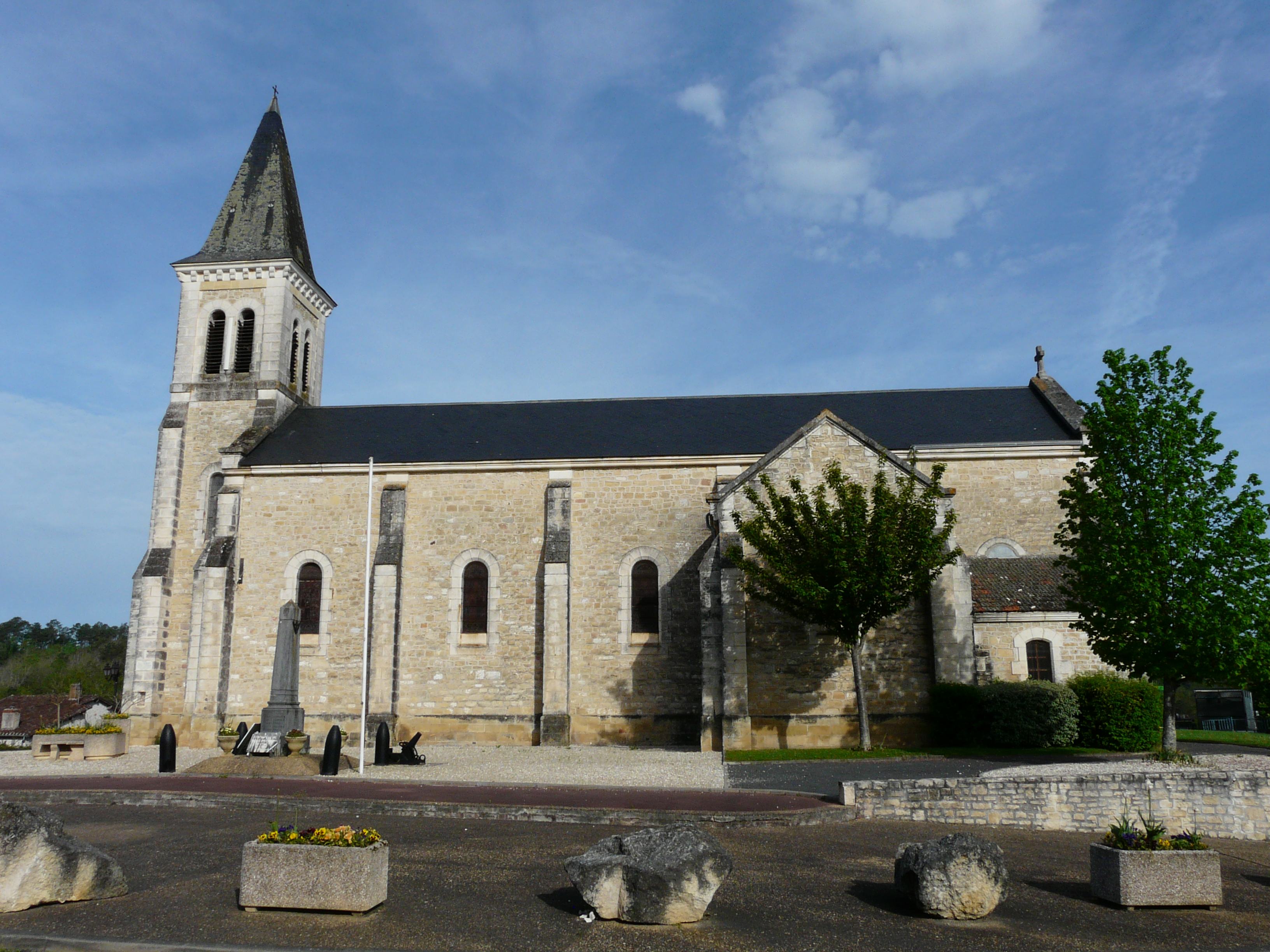 Church of Marsaneix